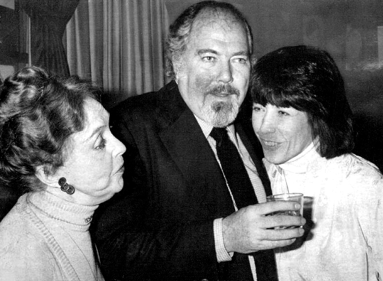 Candid photo of Lillian Gish (L), Robert Altman, and Lily Tomlin at awards presentation for Nashville.